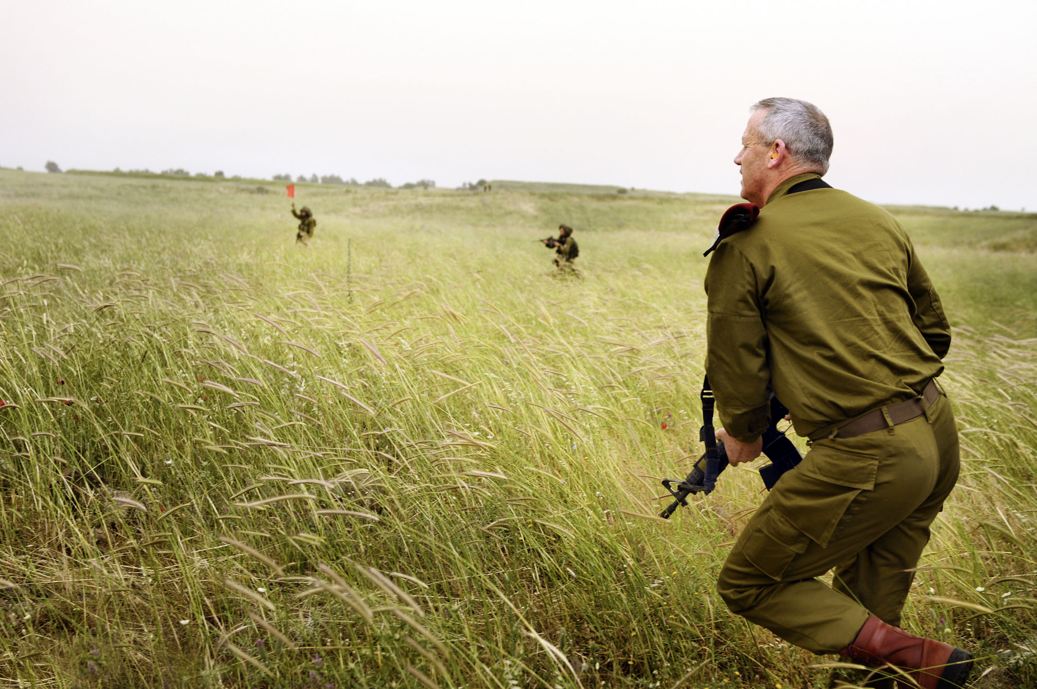 May 18, 2011 The Chief of the General Staff, Lt. Gen. Benny Gantz, visited an exercise conducted today in the Golan Heights by the Python battalion, part of the Paratrooper's Brigade. During his visit, Lt. Gen. Gantz heard briefings, watched the exercise, and talked with commanders and their soldiers. The Python brigade conducted the exercise after successfully completing operational duties in southern Israel. Photography by: Cpl. Ori Shifrin, IDF Spokesperson's Unit היום (ד'), ביקר הרמטכ"ל, רא"ל בני גנץ, בתרגיל של גדוד "פתן" של חטיבת הצנחנים אשר נערך ברמת הגולן. במהלך הביקור שמע הרמטכ"ל סקירות, צפה בתרגיל ושוחח עם המפקדים והלוחמים.